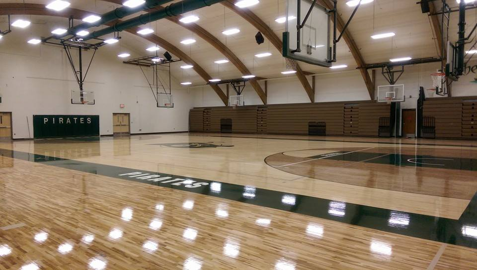 Napoleon (MI) High School Basketball Court